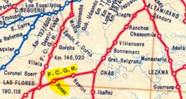 Excerpt from a General Roca Railway map, with the small town of Rosas highlighted.